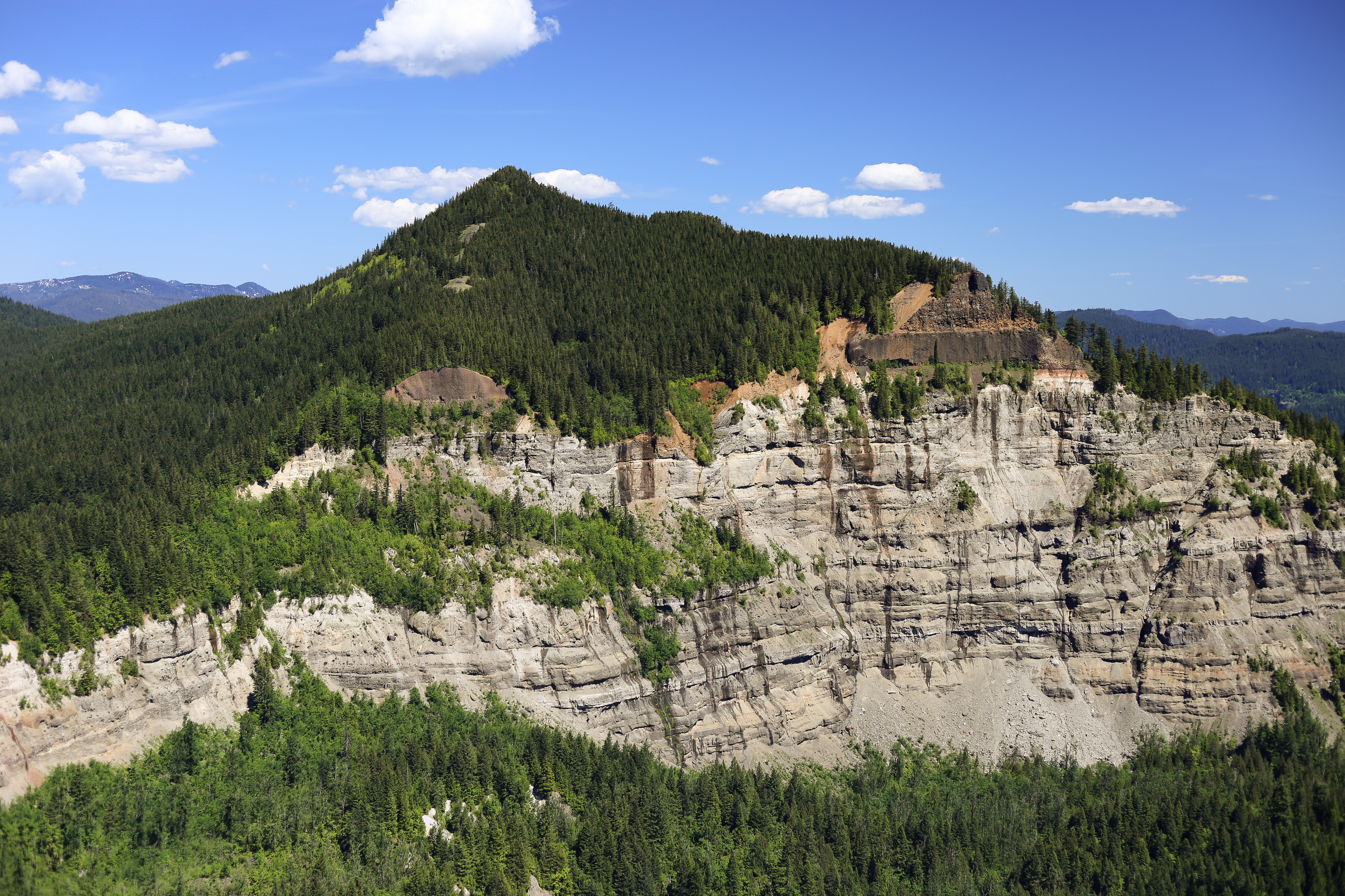 The southern face of Greenleaf Peak where the Bonneville Slide occurred.